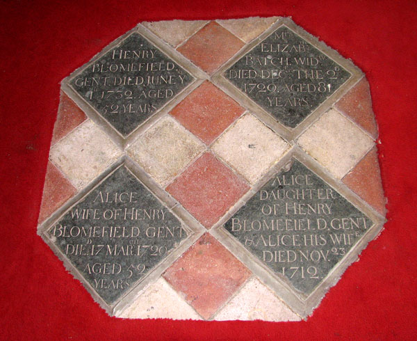 Tablets in St Andrew's parish church, Fersfield, Norfolk, England, to the Blomefield family. Rev. Francis Blomefield, rector of Fersfield and Norfolk historian, was the eldest son of Henry and Alice Blomefield, yeomen farmers in Fersfield. Rev. Blomefield was born in Fersfield in 1705, and died there in 1752.